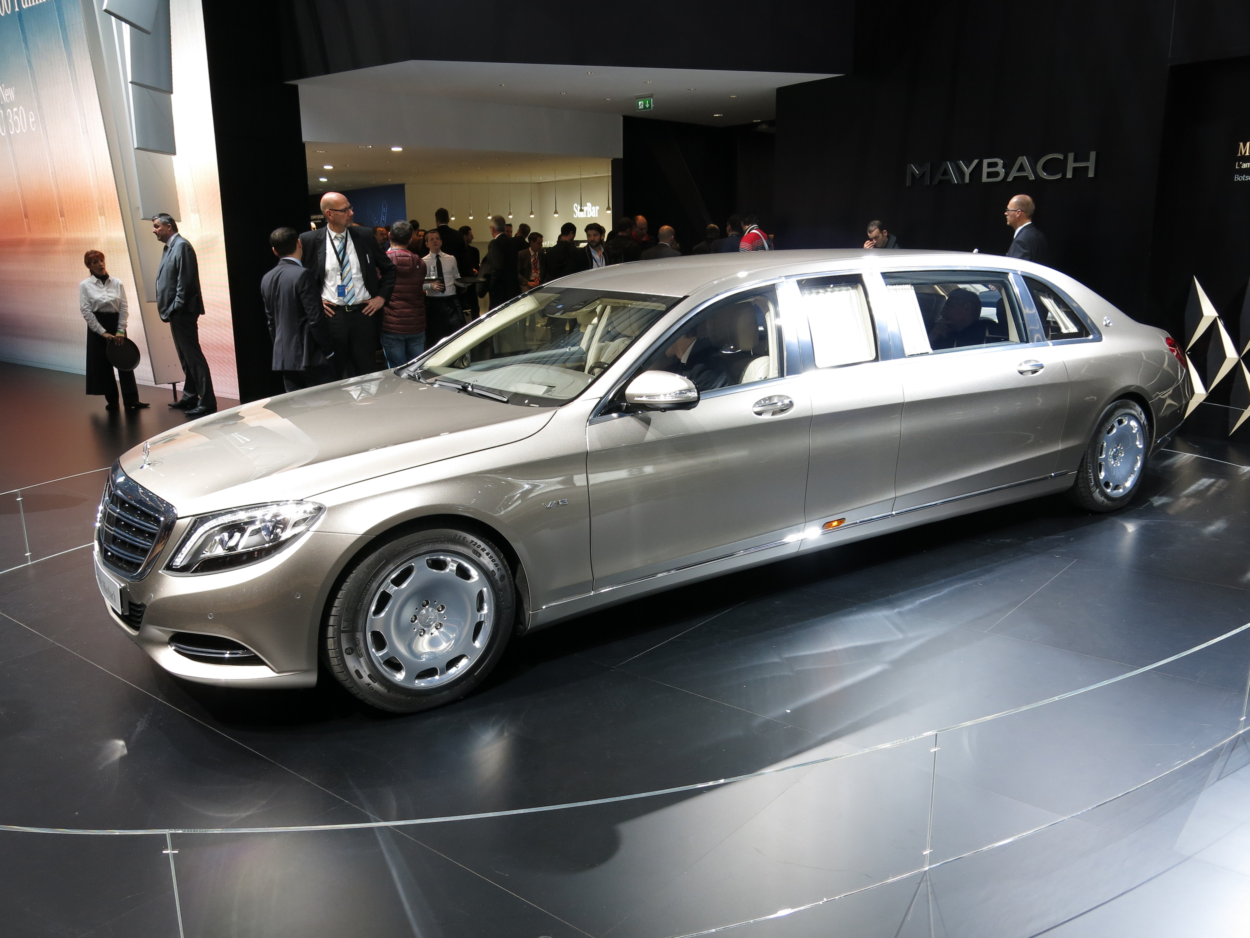 Geneva Motor Show 2015 (photo taken on the first press day)